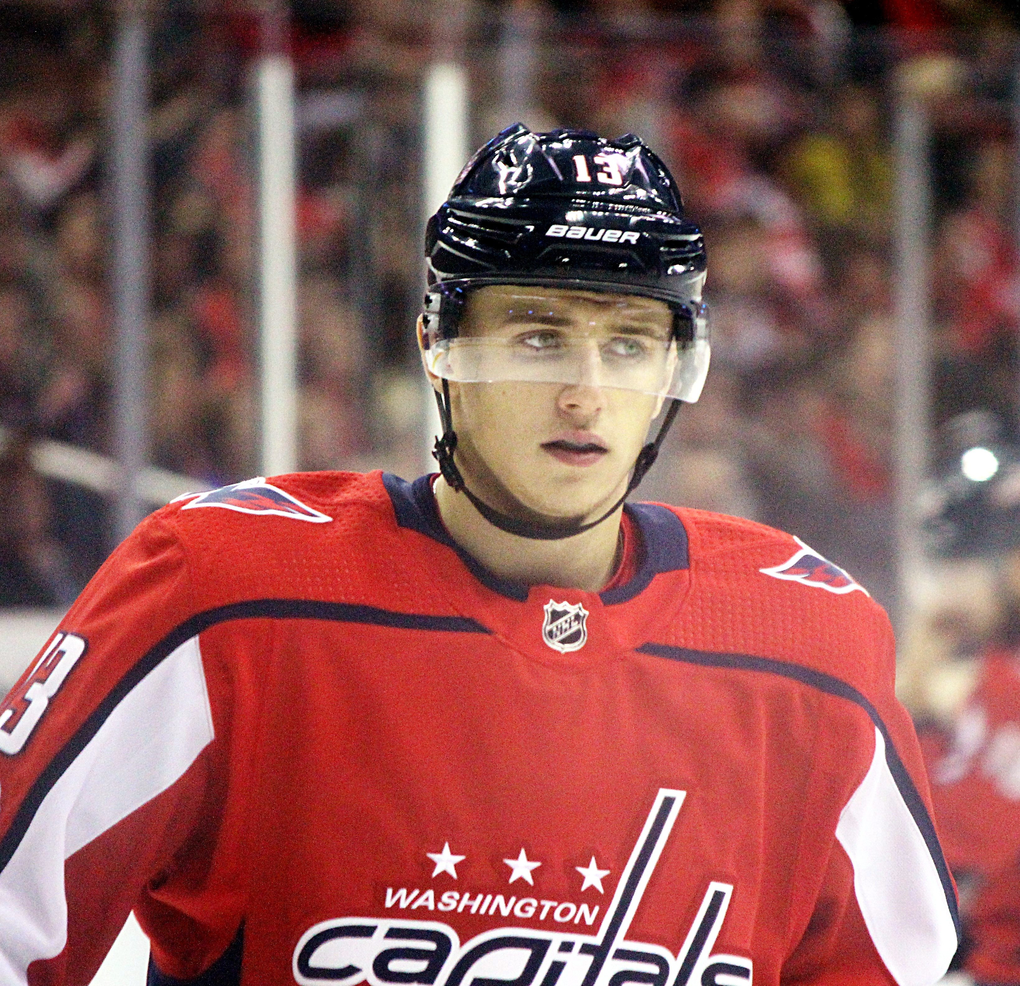 Washington Capitals forward Jakub Vrana during a game against the Pittsburgh Penguins, November 10, 2017, at Capital One Arena in Washington, D.C.